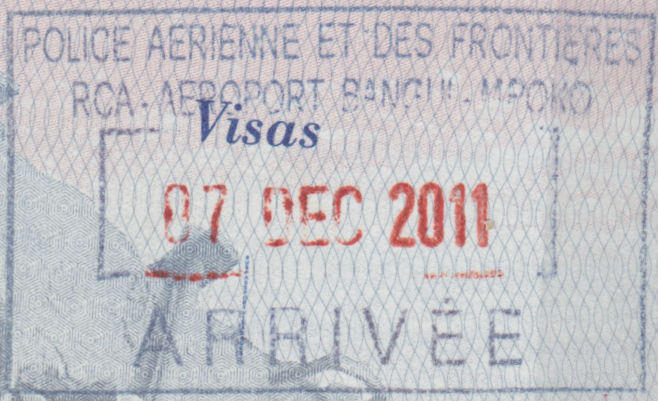 Central African Republic entry passport stamp from 2011. Air crossing.